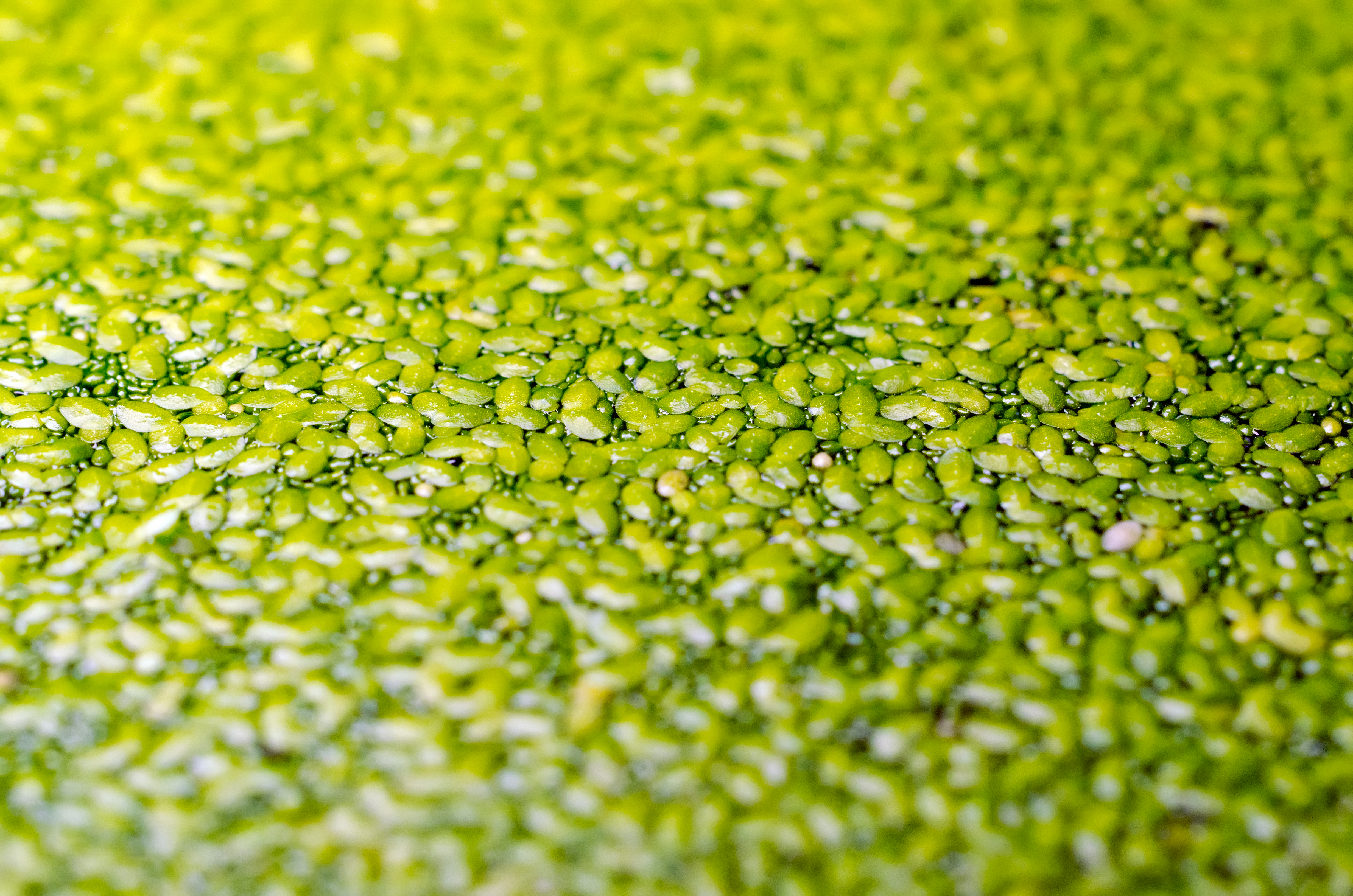 Wolffia arrhiza, macro photo